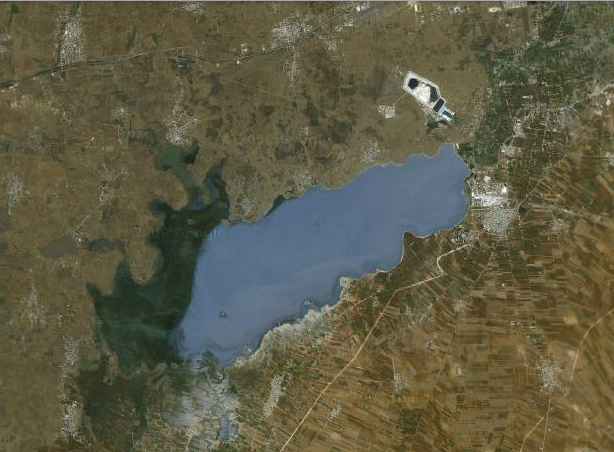 A satellite image of the Lake Homs (Lake Qattinah) and Lake Homs Dam, 15 kilometers west of the city Homs.